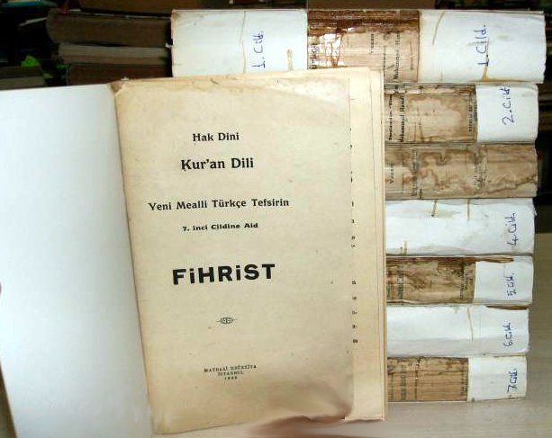 The original print of the first Quran in Turkish language ordered by Atatürk. Elmalı 35 copies: ELMALILI HAMDİ'NİN KURAN TEFSİRİ 7 CİLT (7 VOLUMES) + FİHRİST KİTAP - MEALLİ TÜRKÇE TEFSİR - WRITER - DERSİAMDAN ELMALILI MUHAMMED HAMDİ YAZIR - PUBLISHER: EBUZİYA - PRINT DATE-1935 - 16,5 X 24 - 5868 PAGES. 1935 print of Hak Dini Kur'an Dili. A Qur'anic exegesis and translation of Qur'an in Turkish.